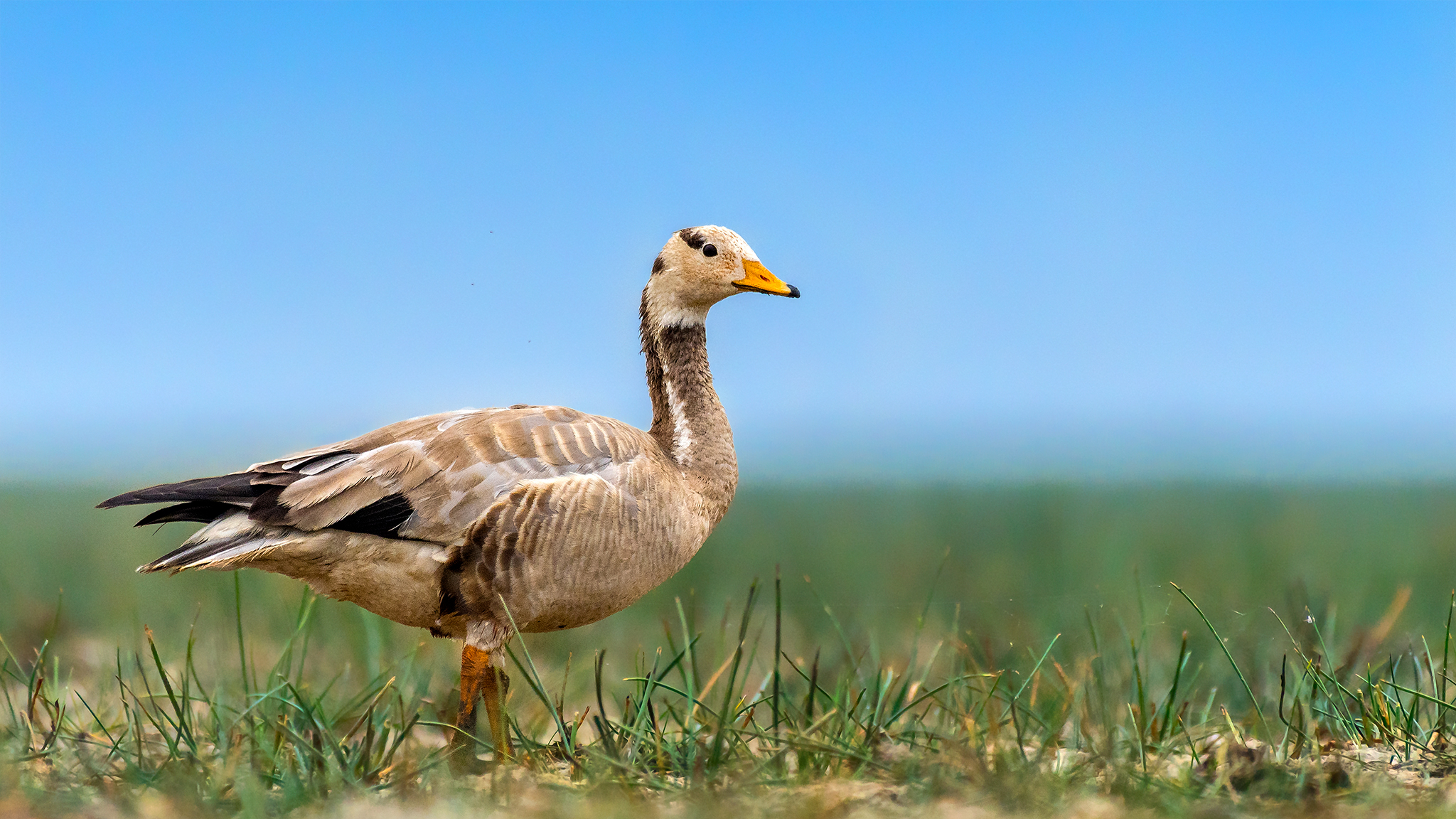 Bar-headed goose, Chilika lake, Mangalajodi, Odisha, India; Photographed by Prasanna Kumar Mamidala